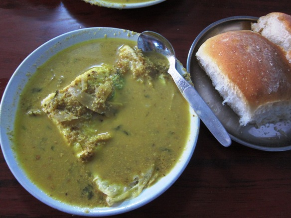 A ros omelette preparation by Hotel Samrat in Saligao, Goa.